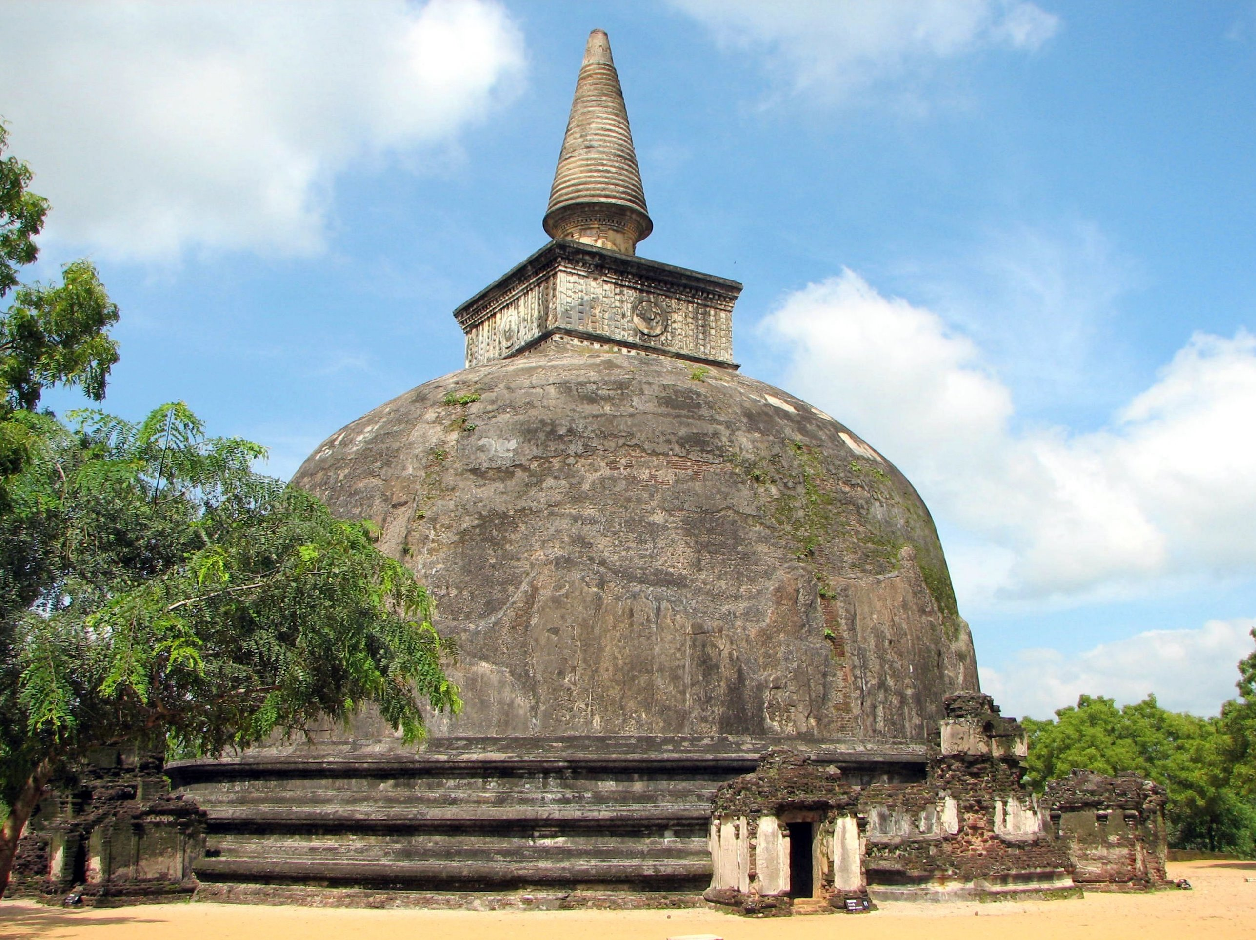 Kiri Vihara dagaba, Polonnaruwa, Sri Lanka